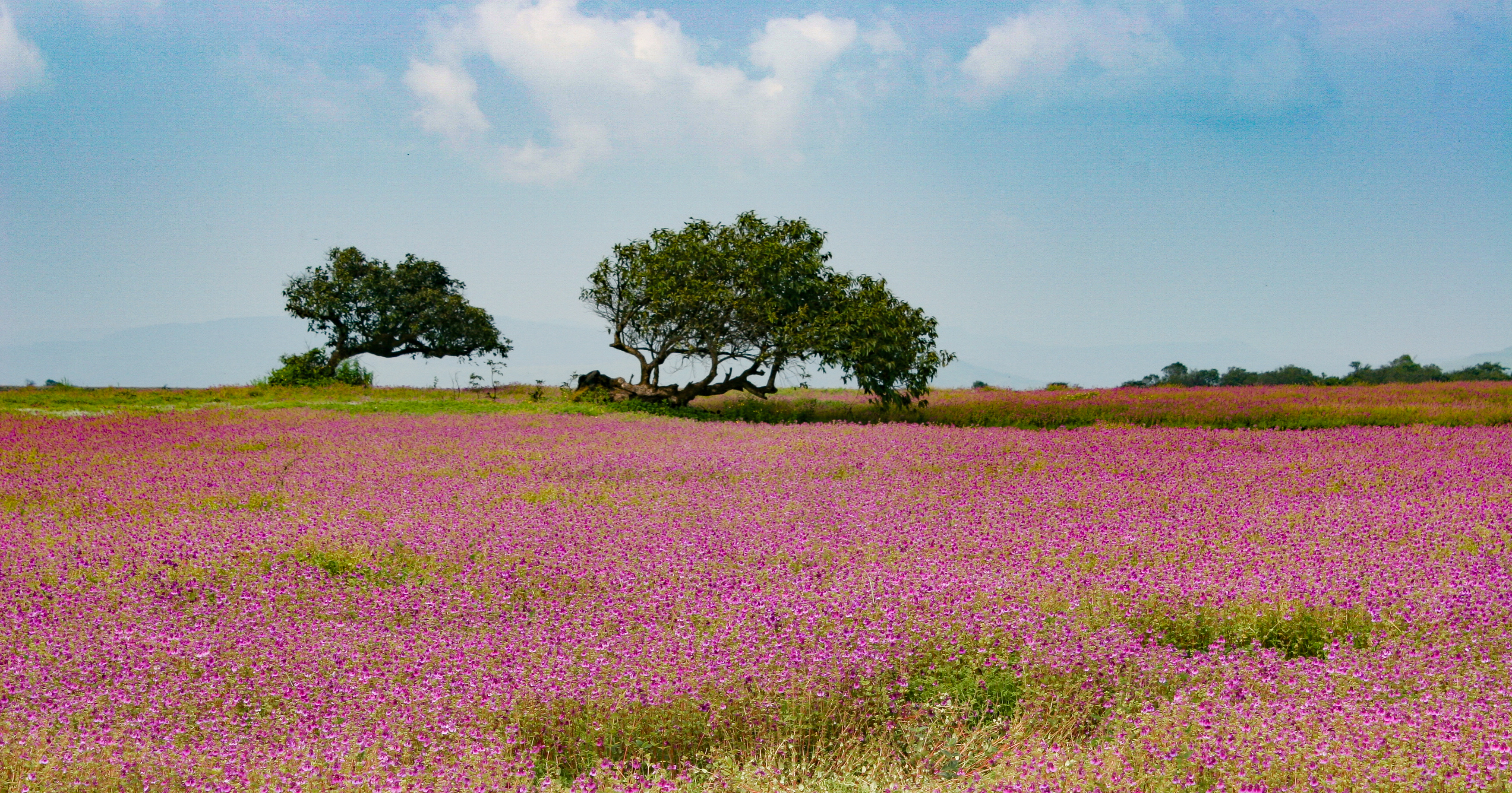 Kaas Plateau - A World heritage site.